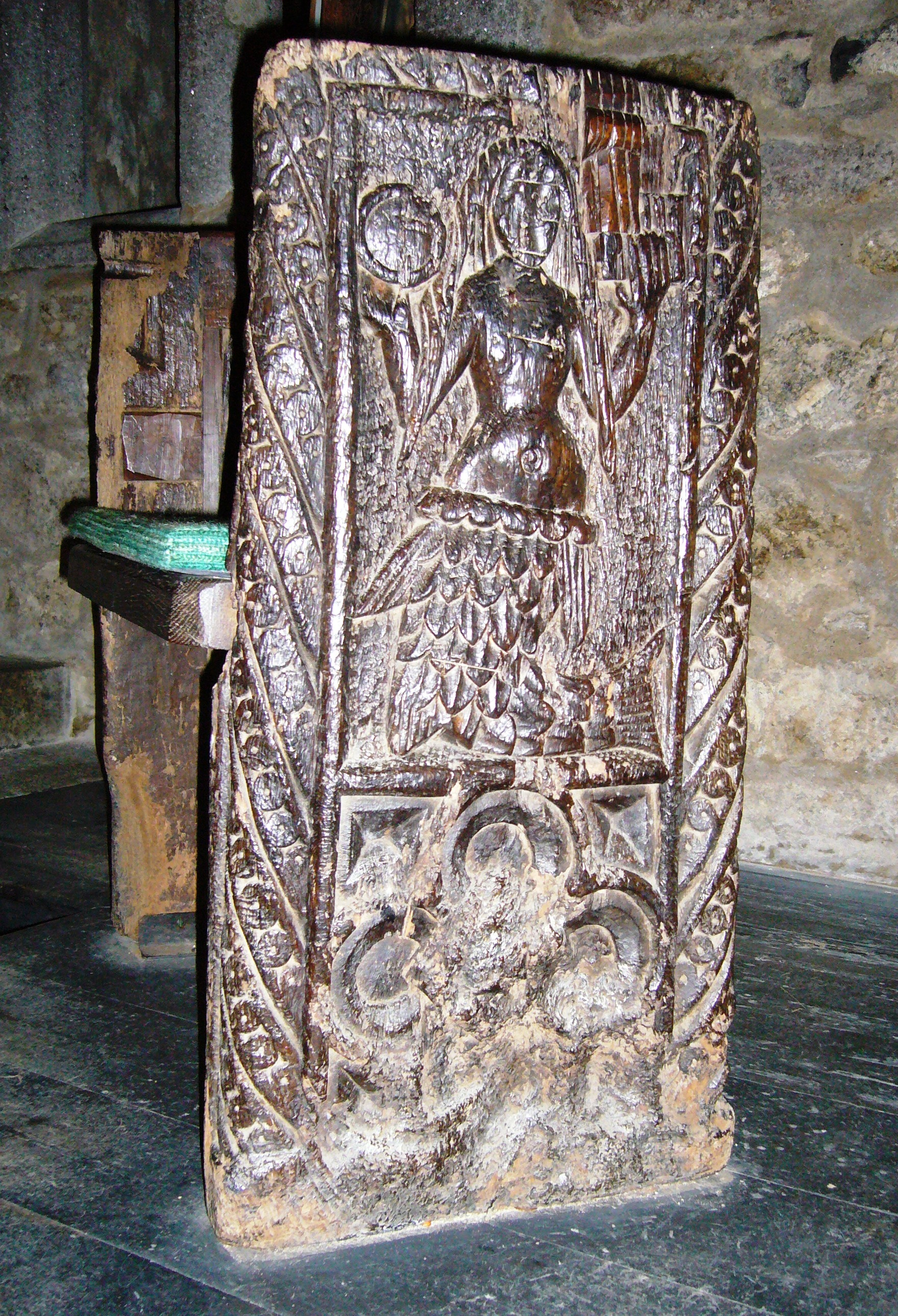 The Mermaid of Zennor, wood-carved bench end, Cornwall, late fifteenth century. Photographed in September 2007 (in Zennor Church, Cornwall). Required attribution is: Photo by Tom Oates.